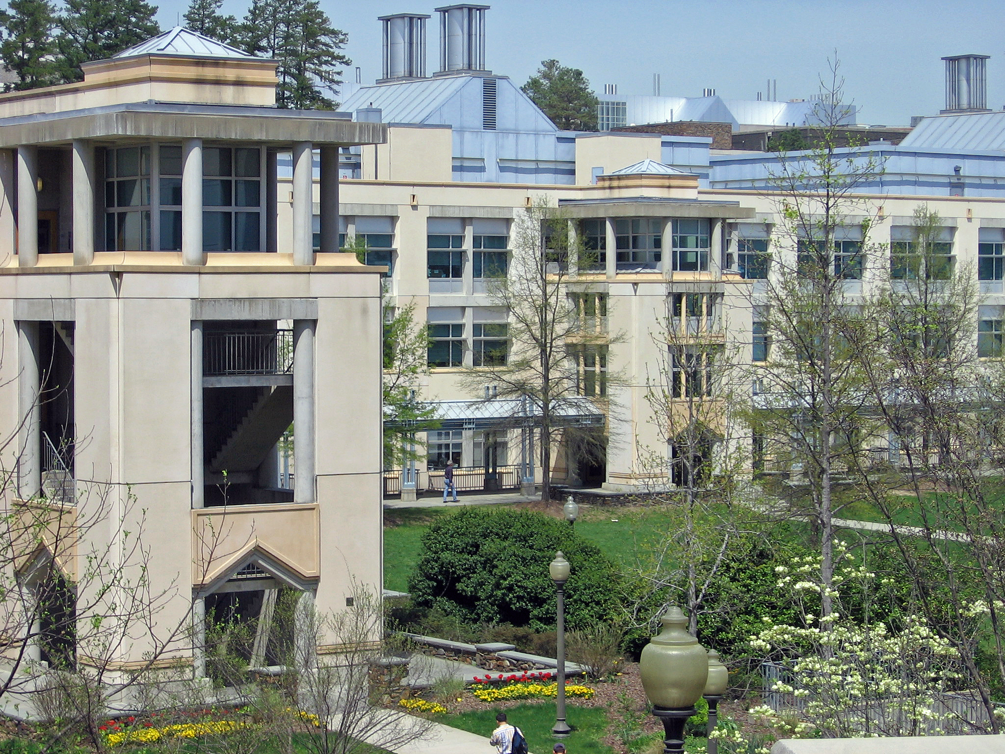 LSRC at Duke University